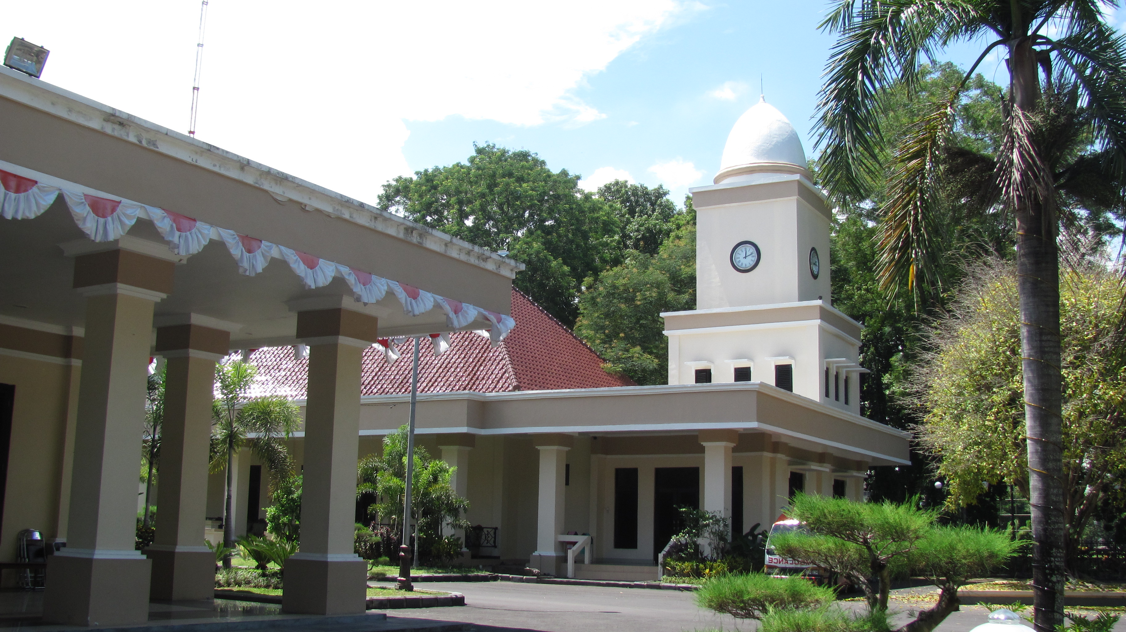 City Hall, Mataram, Indonesia